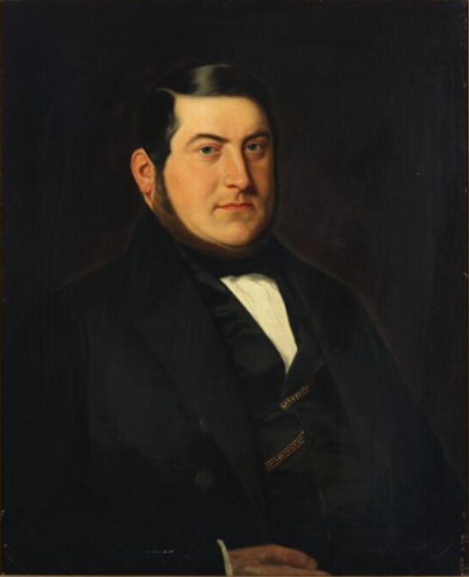 Carl Heinrich Hochbrandt (1811–1866), Danish shipbroker